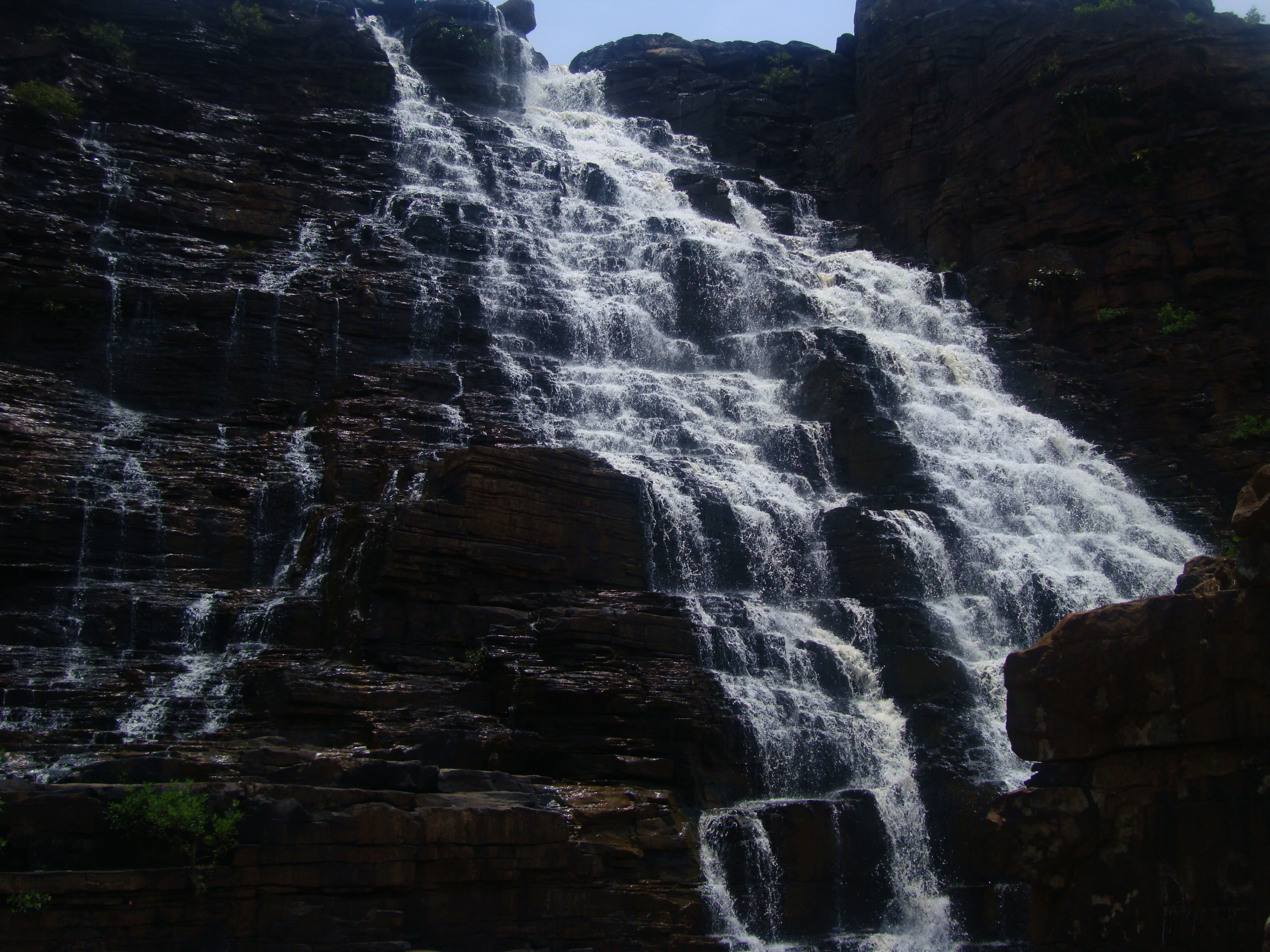 Teerathgarh waterfall during summer (June)